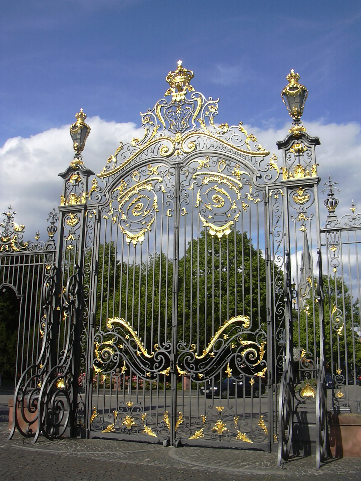 Philippsruhe Castle, gate, near Hanau, Hesse/Germany